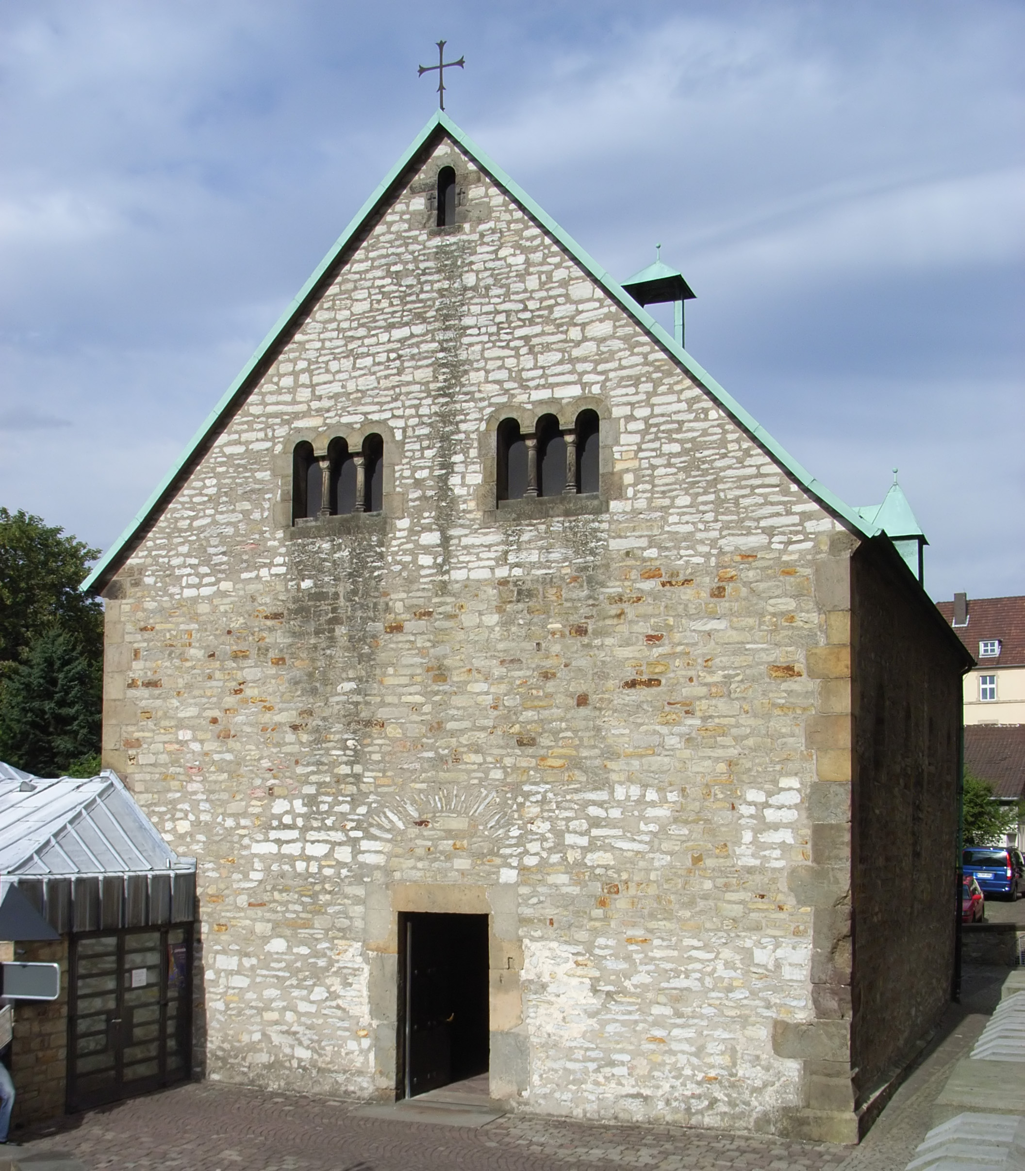 Paderborn, Germany: Bartholomew Chapel next to Paderborn Cathedral. The chapel was built around 1017 and is deemed to be the oldest known hall church northwards the alps.